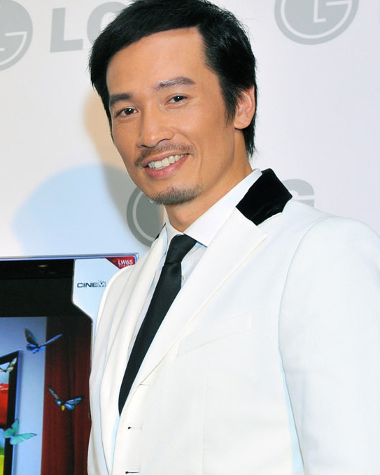 Moses Chan as LG cinema 3D TV model at Harbour Grand Hotel in hong kong, on March 30, 2011